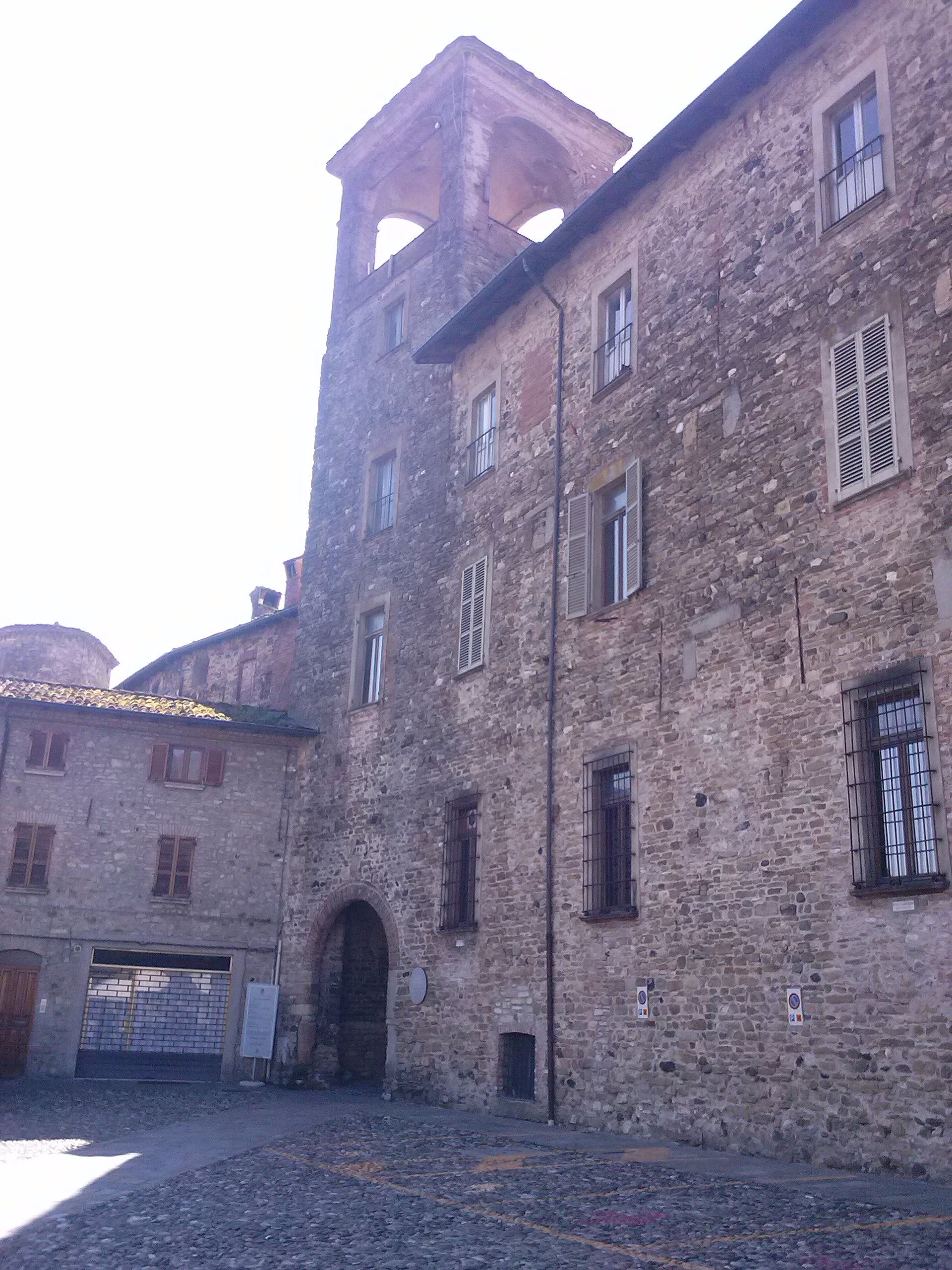 Anguissola Castle, Travo (Piacenza, Italy)